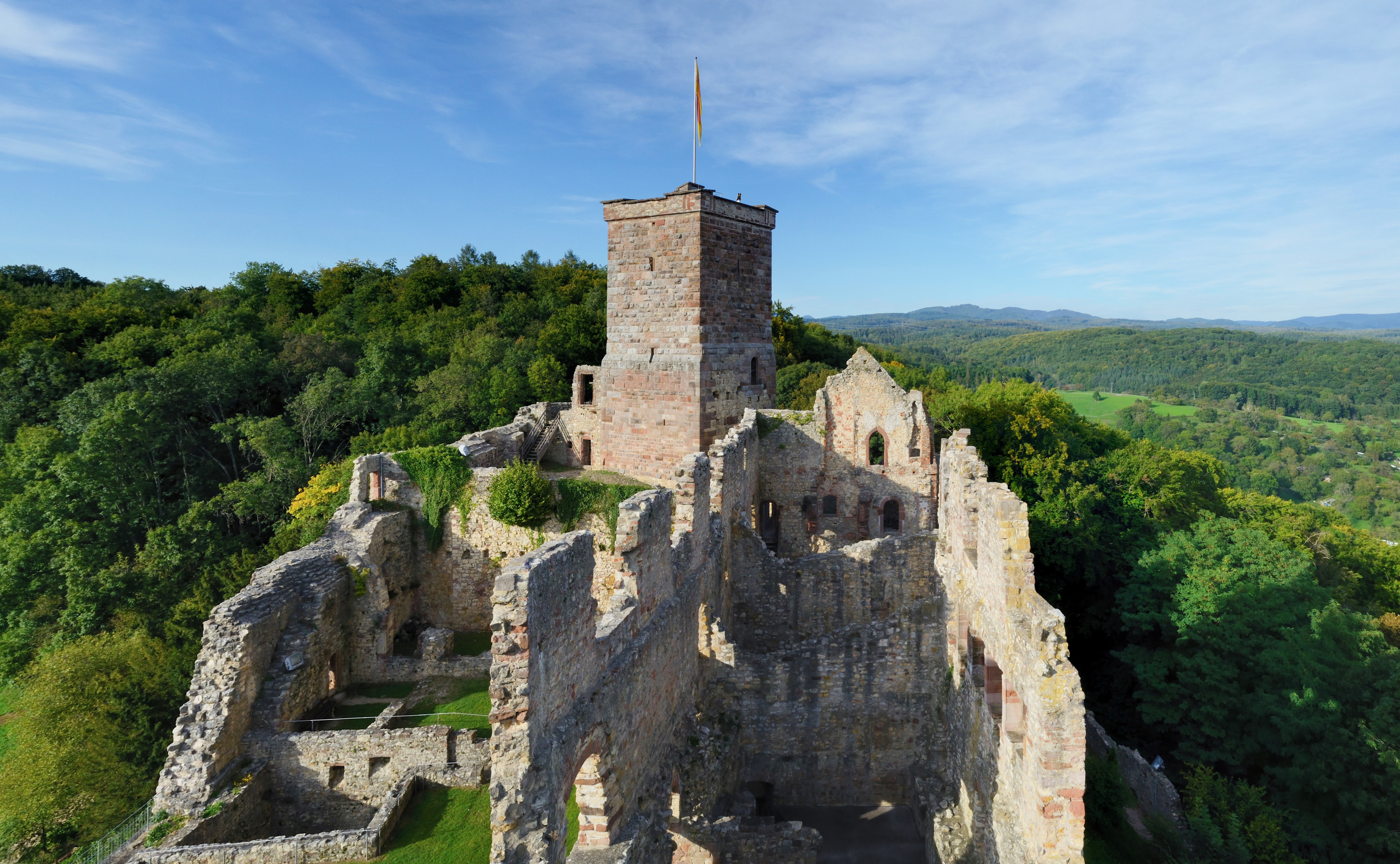 Rötteln Castle: upper part and Bergfried